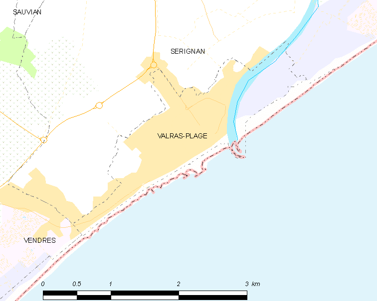 Map commune FR insee code 34324.png - Valras-Plage